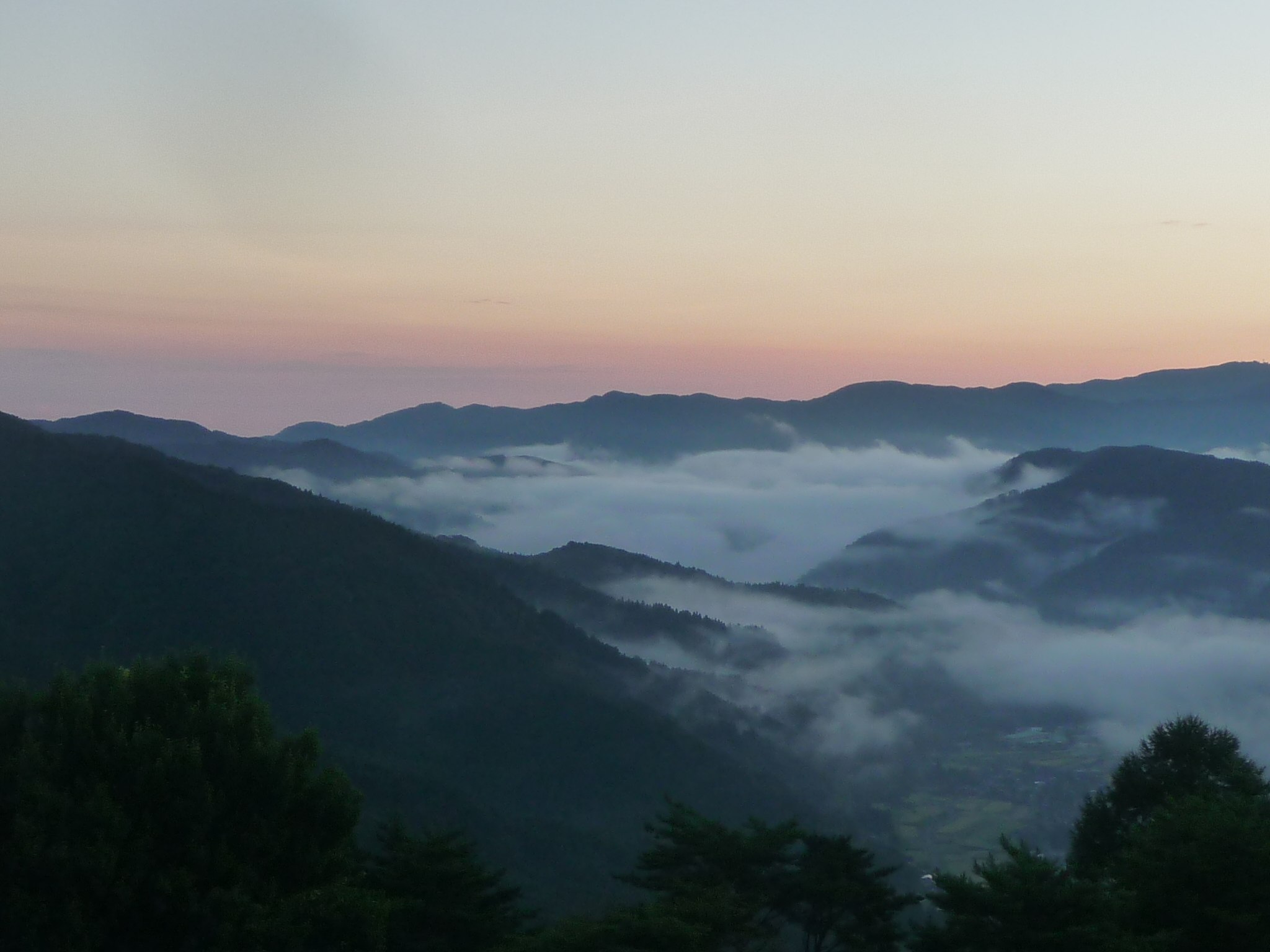 Cloud sea viewed from Yoshitaki Camping Site in Ojiro, Kami Town.